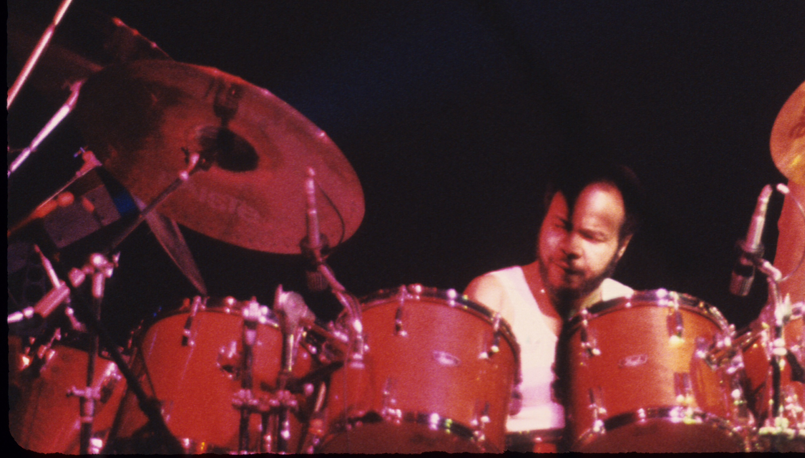 Strasbourg-1981-10-28-29